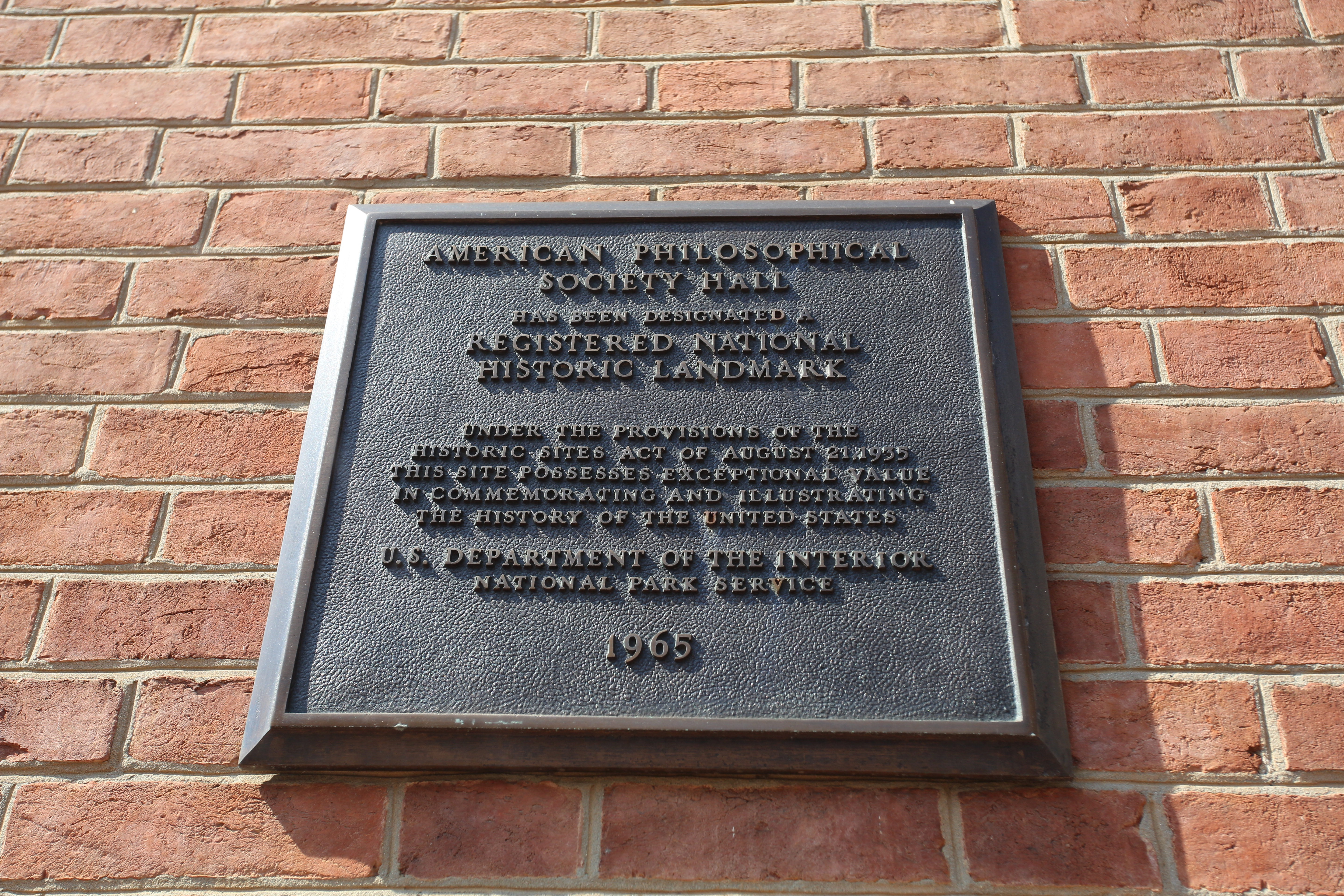 Philosophical NHL